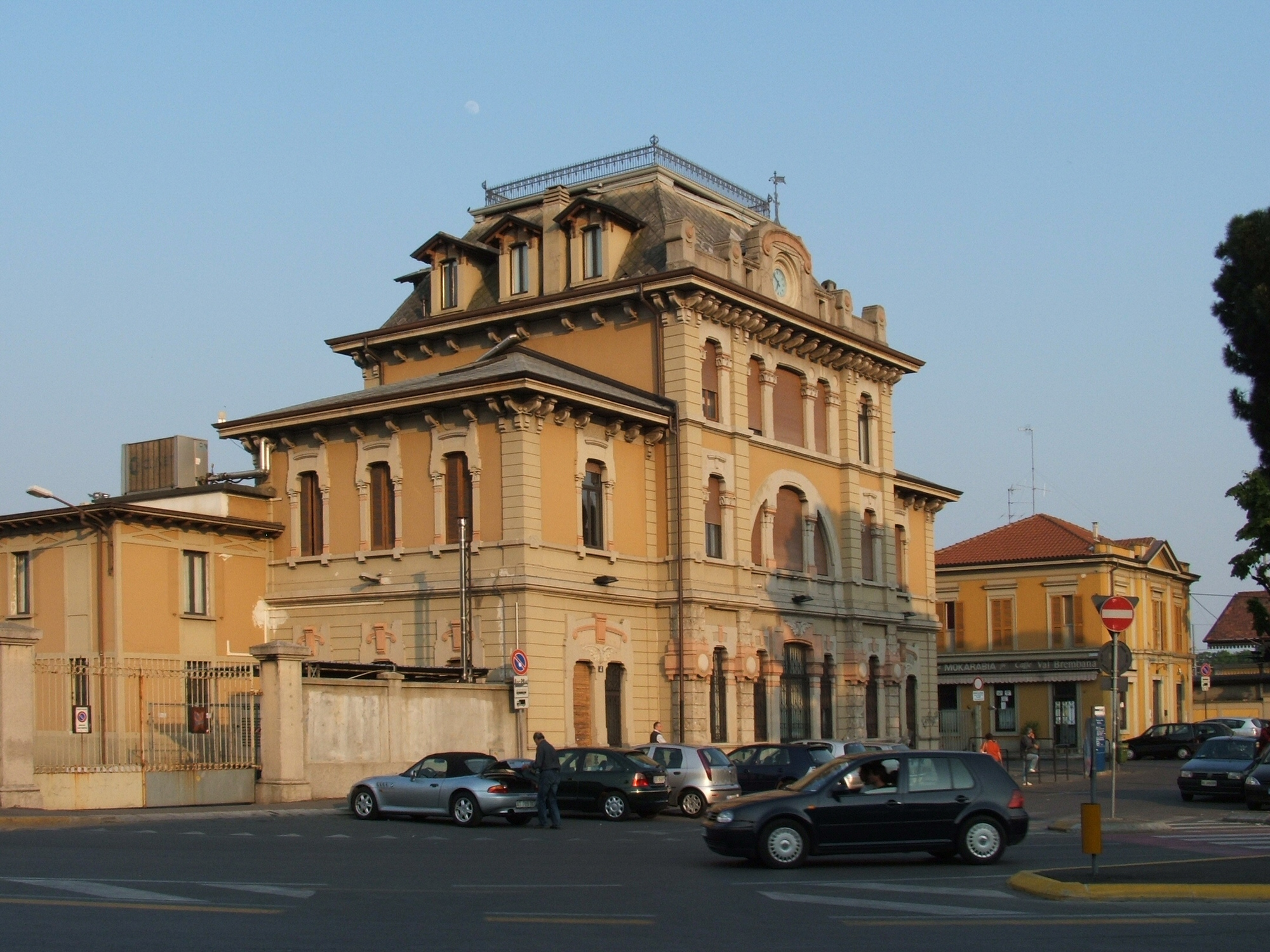 Bergamo - Lombardy - Italy, Bus station, it was old station Ferrovia Valle Brembana